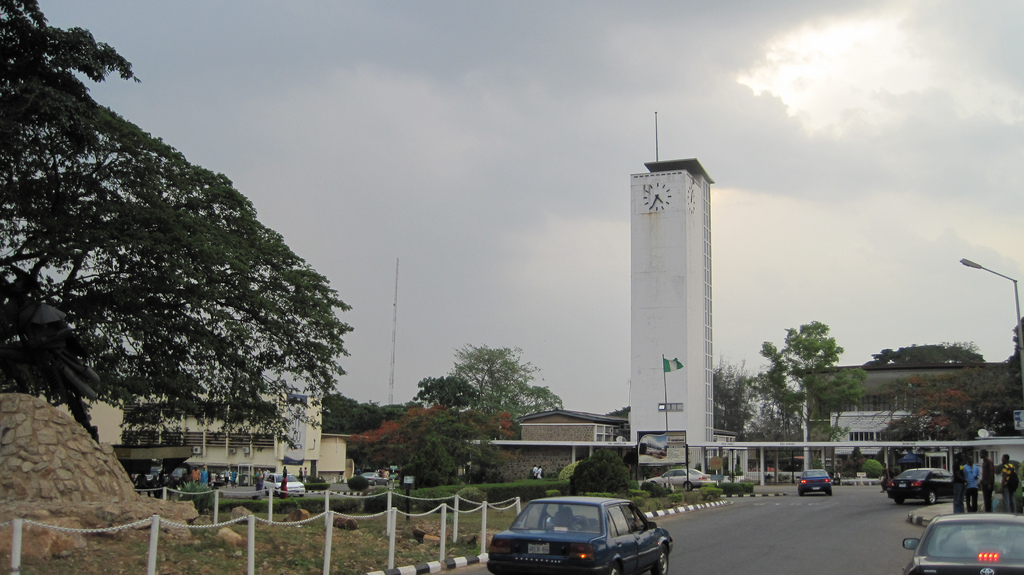 The main thoroughfare at the University of Ibadan